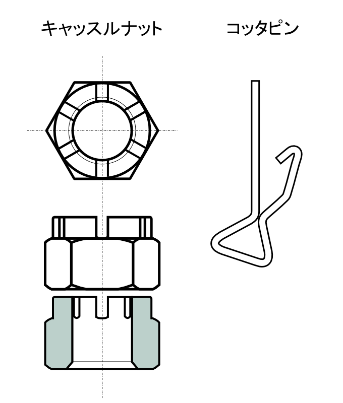 Screw (bolt) 22G-J.PNG